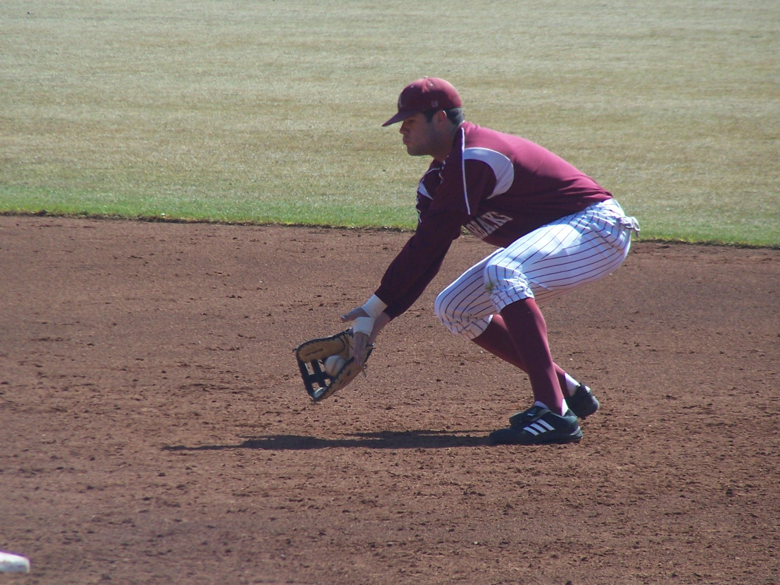 Jacob House, a first baseman for the w:2009 Arkansas Razorbacks baseball team